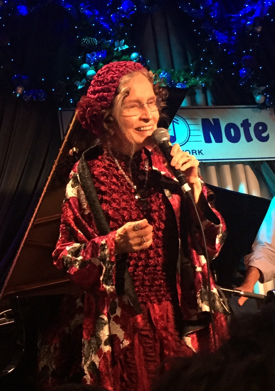 Gayle Moran, Blue Note Jazz Club, New York City, December 2016